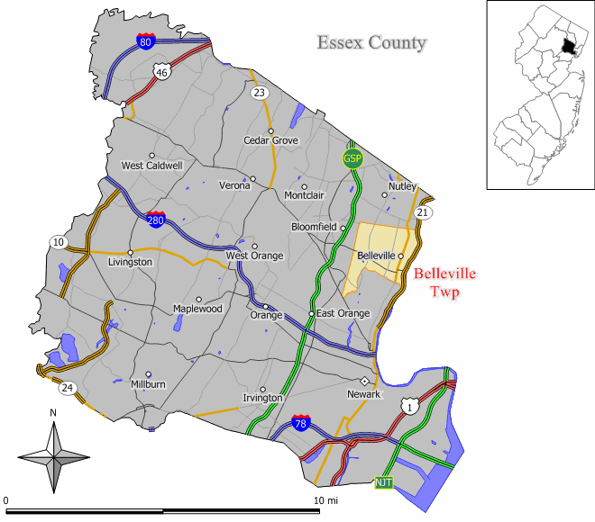 Source: Jim Irwin Original work by Jim Irwin, December 2005.